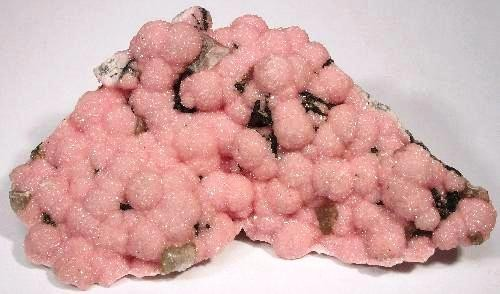 Rhodochrosite Locality: Wessels Mine (Wessel's Mine), Hotazel, Kalahari manganese fields, Northern Cape Province, South Africa (Locality at ) Size: 6.5 x 3.6 x 1.8 cm. Superb plate of drusy Rhodochrosite balls intermixed with blades of Baryte, accented with a dusting of manganese ore on the bottom. The color and sparkly luster of the rhodochrosite is top-notch. VERY aesthetic.